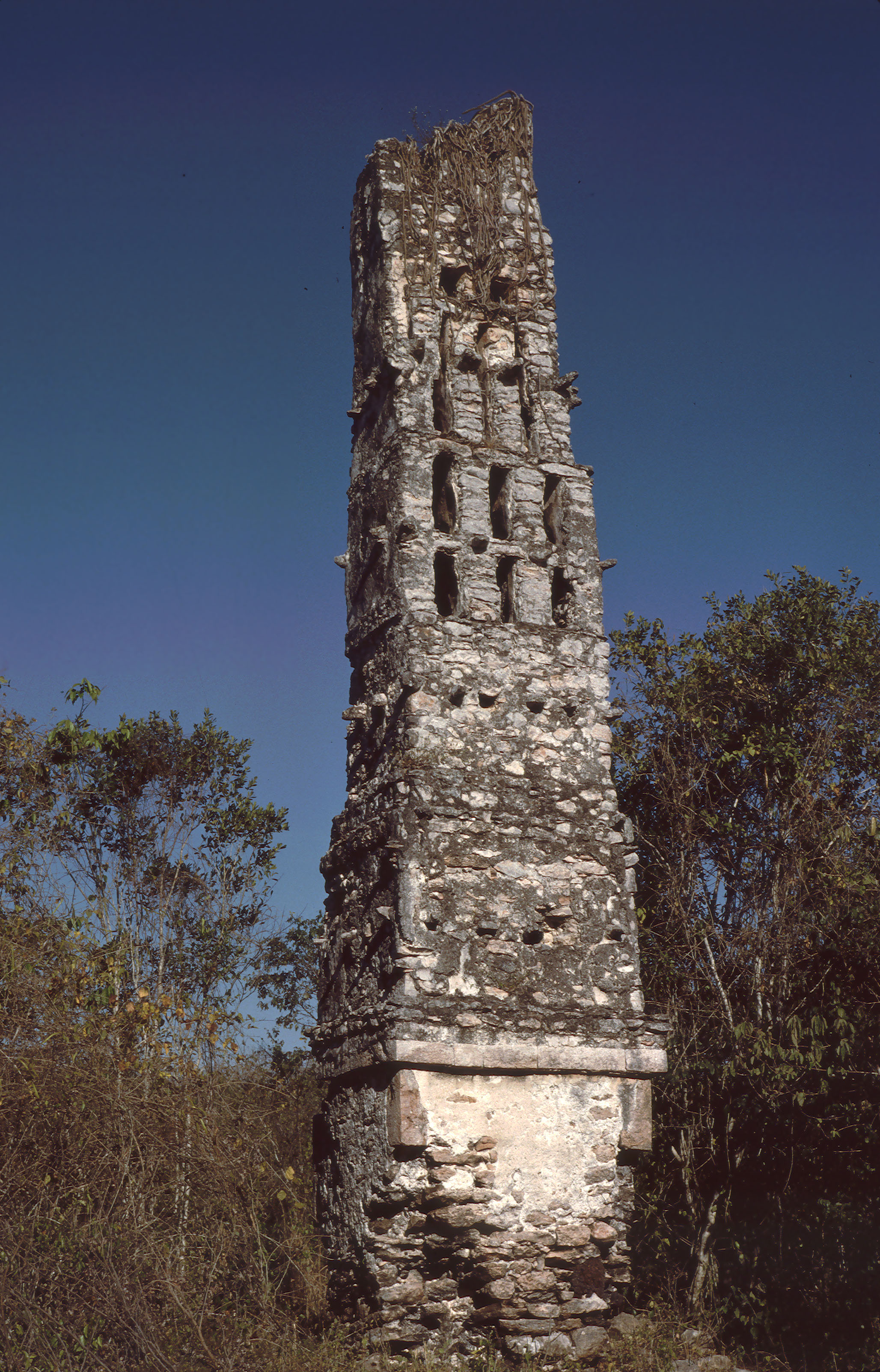 Nocuchich, Campeche, Mexico: tower.